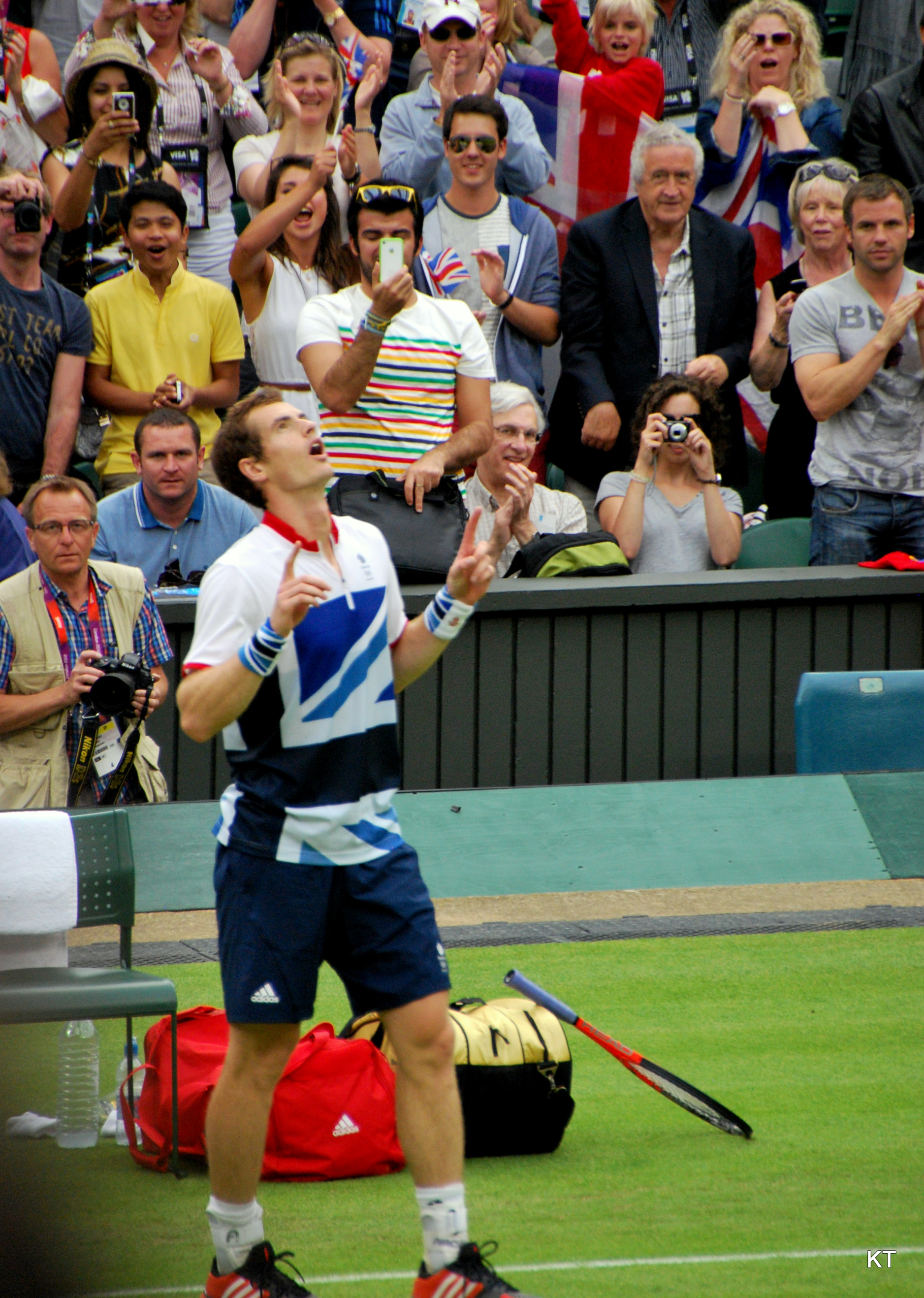 Andy Murray with his signiture winning pose after beating Stan Wawrinka.